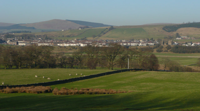 Sanquhar viewed from the south The sheep pastures in the foreground run down to the River Nith. The remains of Sanquhar Castle can be seen on the right. In the distance is partly-forested Knockenhair Hill.